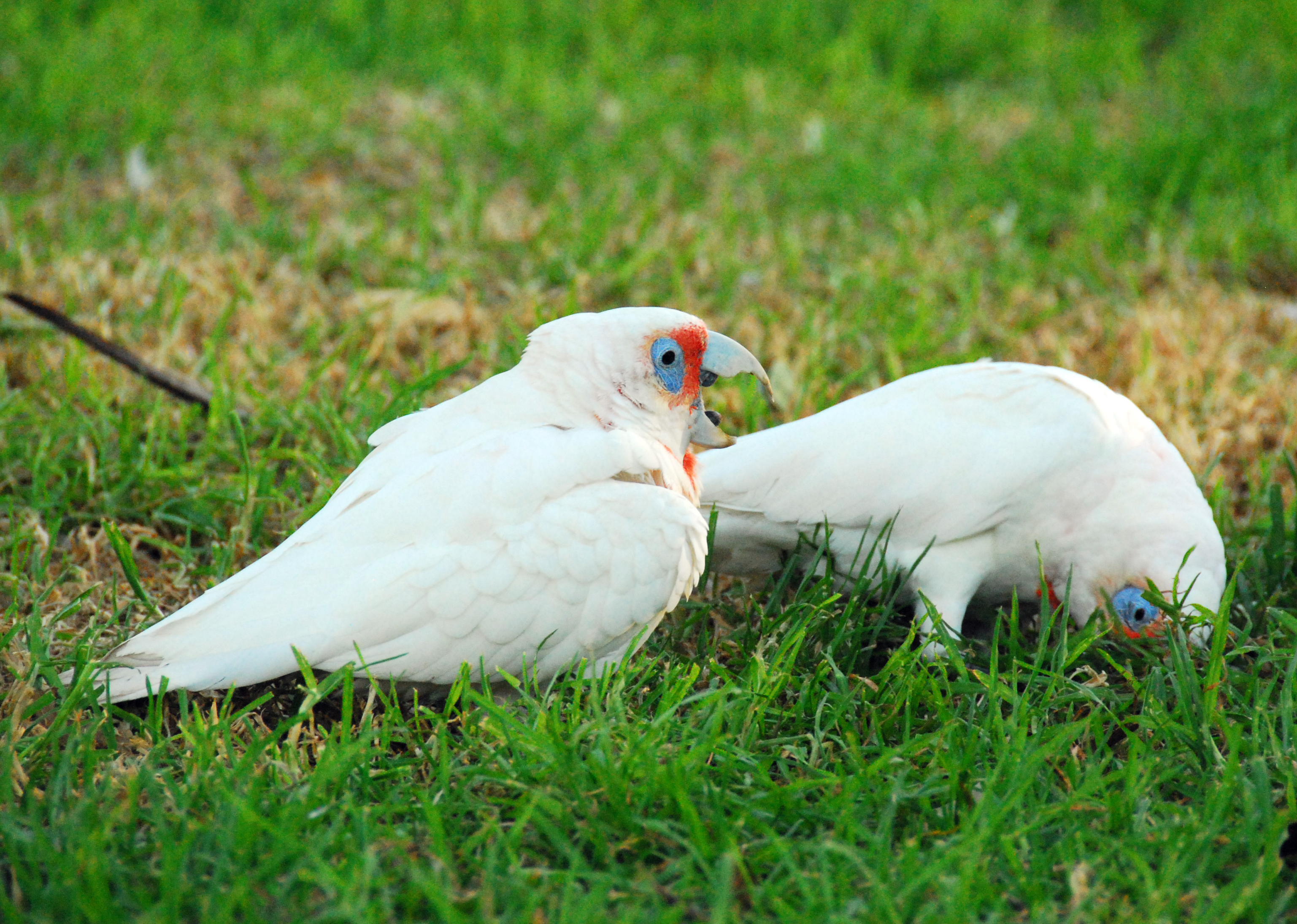 Two feral Long-billed Corellas (also known as Slender-billed Corella) on short grass at Joondalup Bird Park, Western Australia. The parrot on the left is using its beak to dig for food.